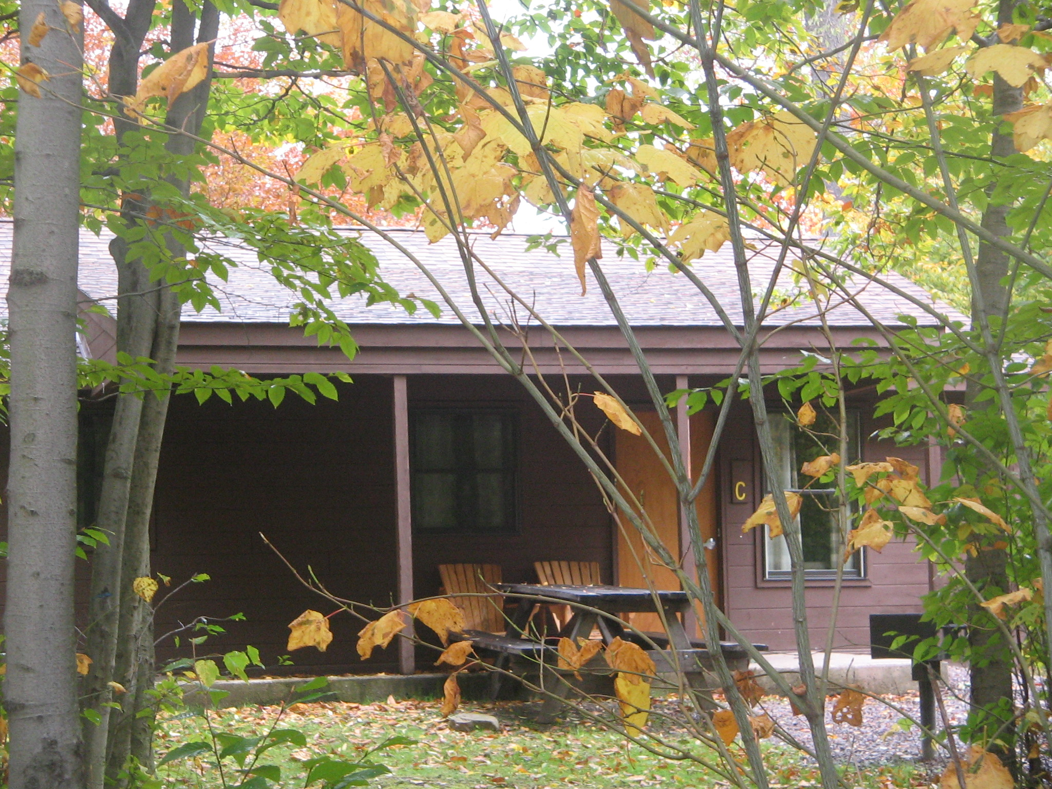 Cabin C at Ricketts Glen State Park, Luzerne County, Pennsylvania, USA.